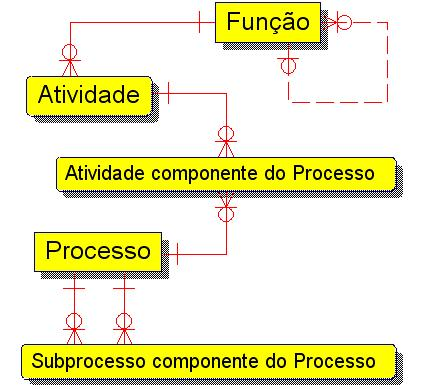 Business Function, Business Process and their relationships